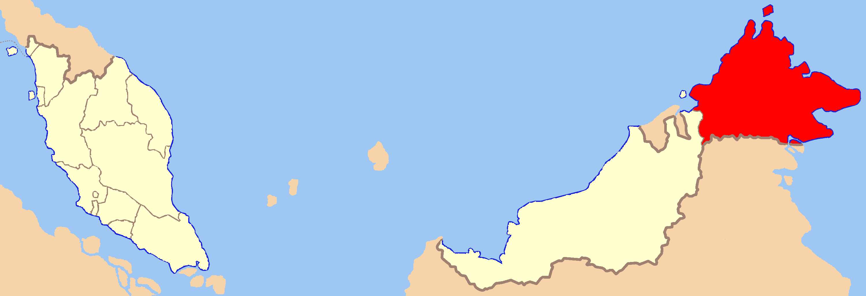 Map of Malaysia with Sabah highlighted